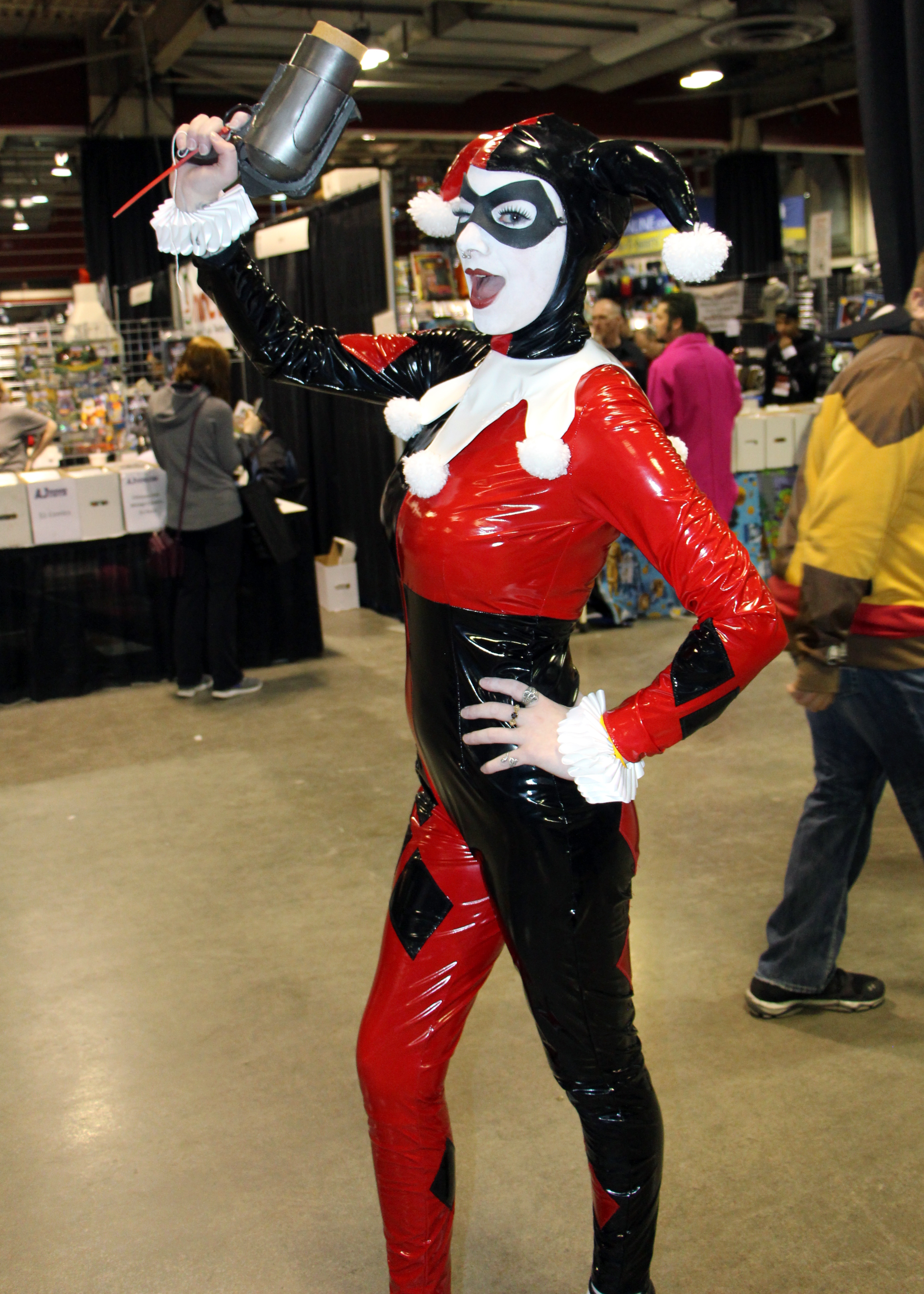 Harley Quinn: 2015 Calgary Expo – Calgary Comic & Entertainment Expo